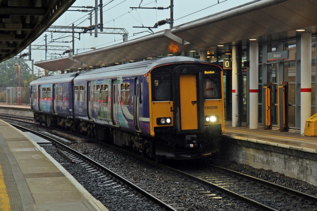 Northern Rail Class 150, 150228, platform 0, Stockport railway station